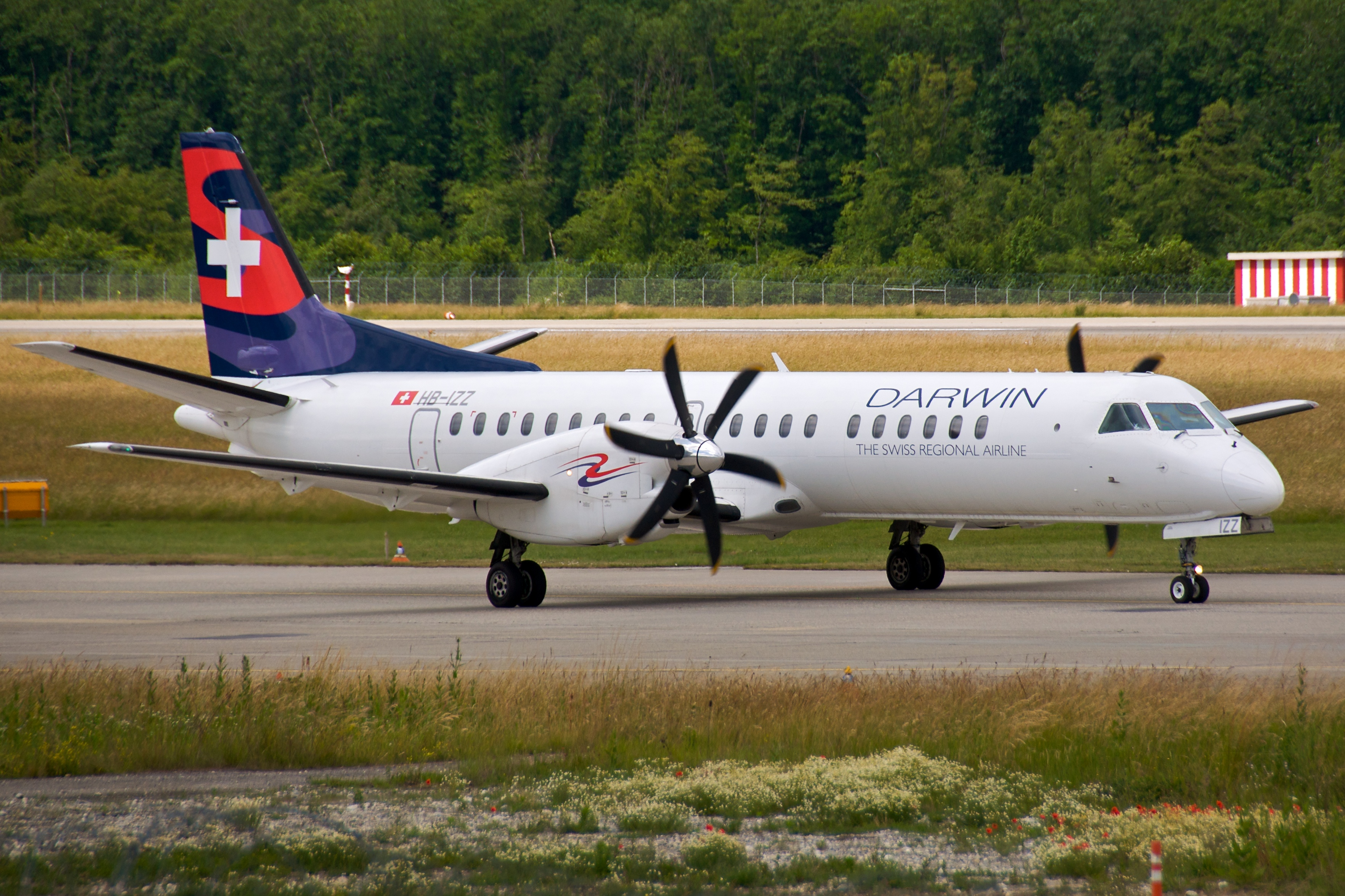 Darwin Saab 2000 HB-IZZ in Geneva International Airport.